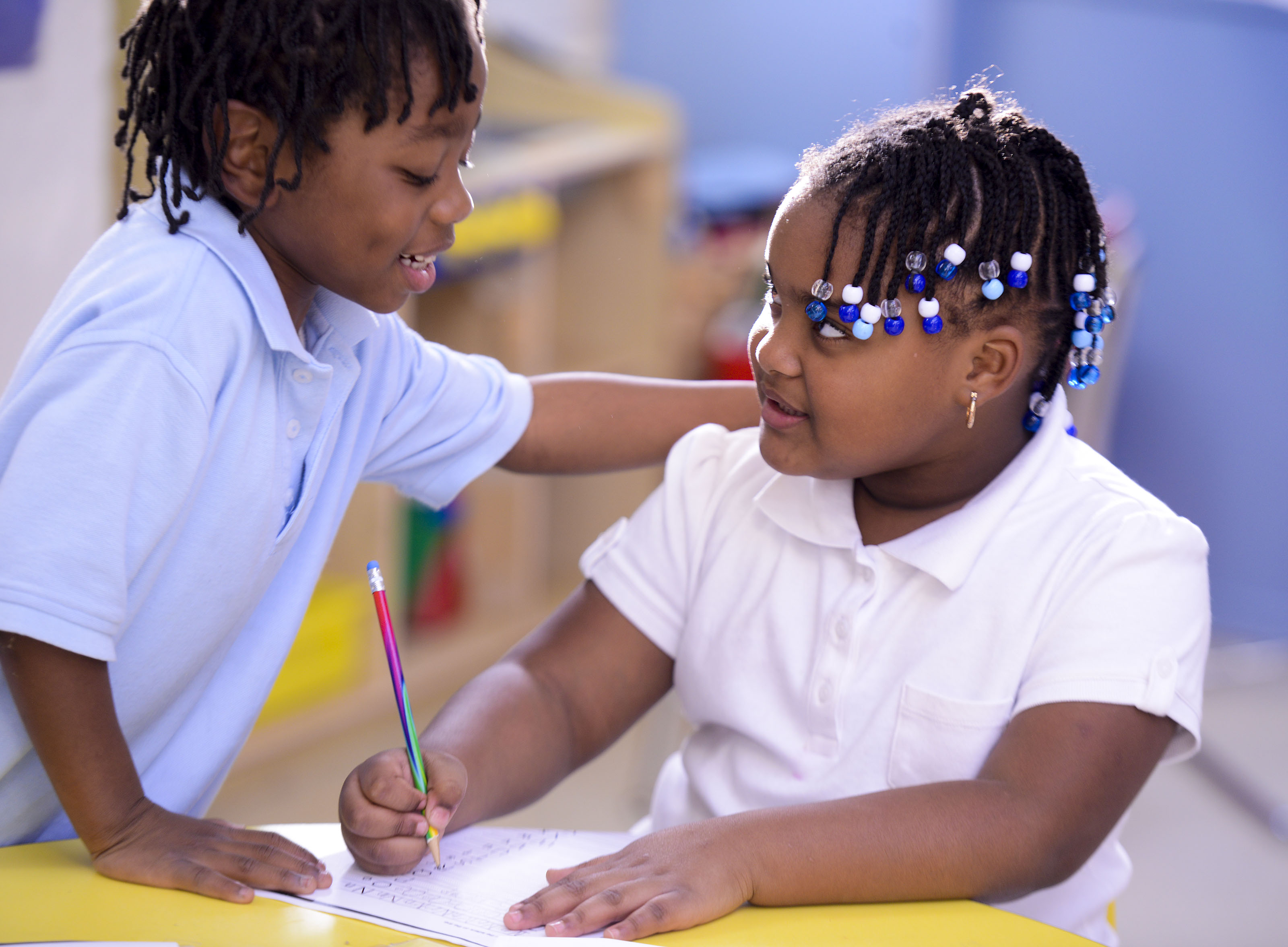 Reading Program